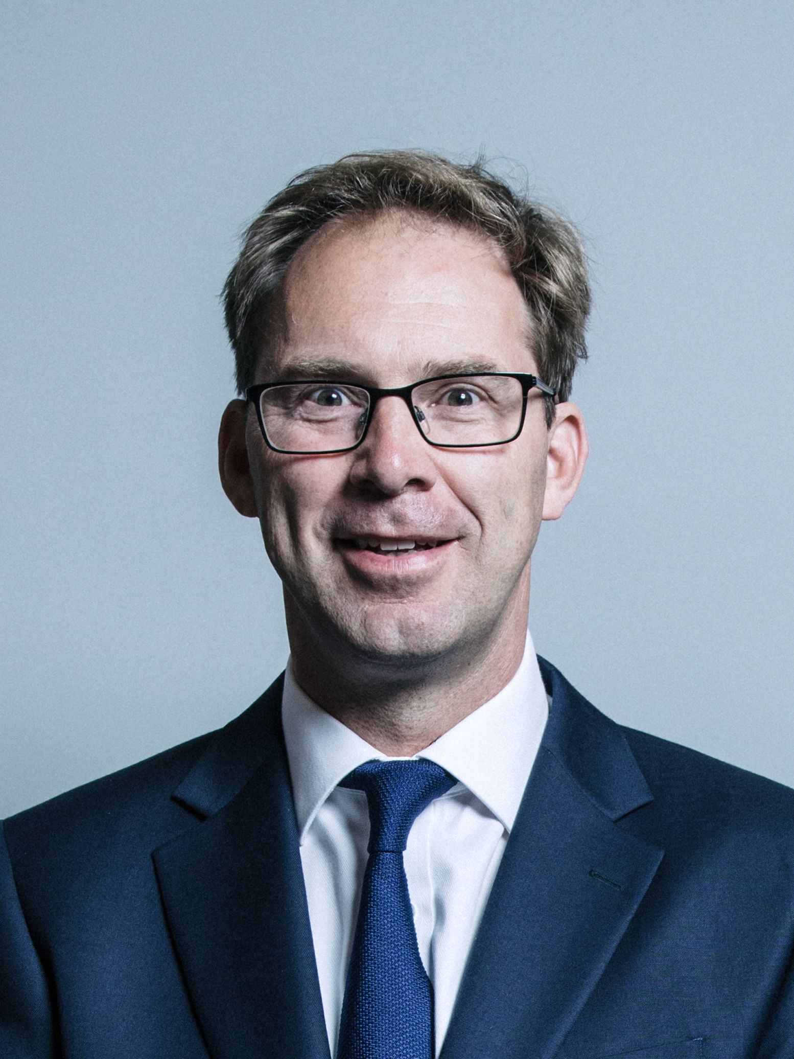 Official portrait of Mr Tobias Ellwood